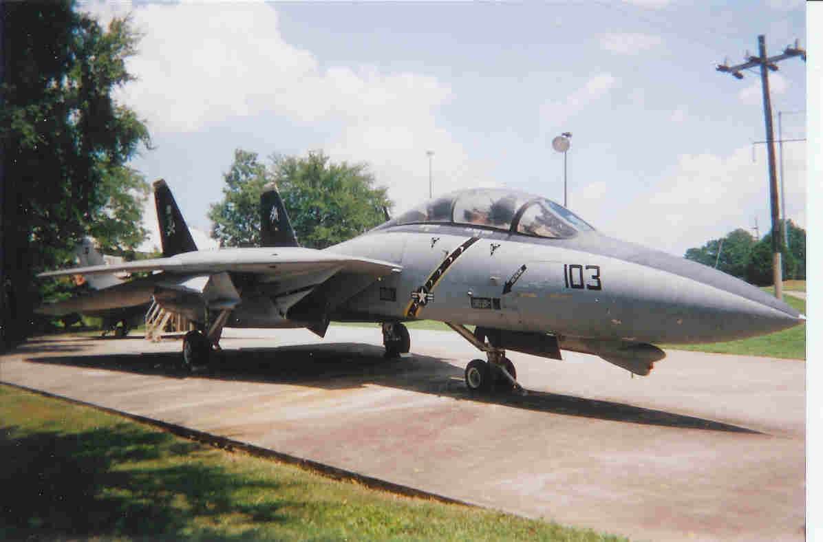 The F-14 Tomcat on display at the U.S. Space and Rocket Center's Aviation Challenge facility.